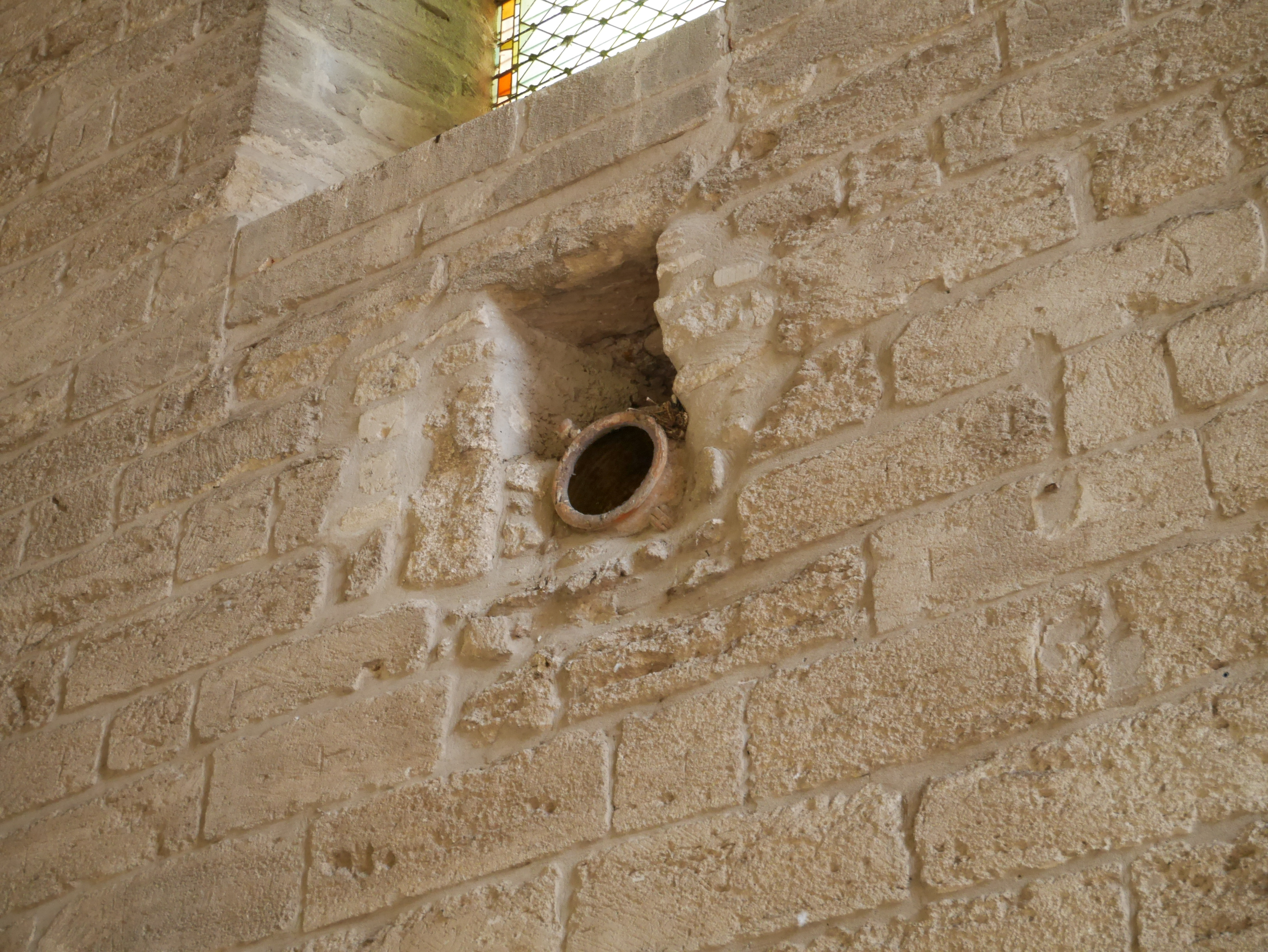 Acoustic jar (or more specifically a resonance amphora) embedded in the wall of the Church of the Chartreuse du Val de Benediction, Villeneuve-lès-Avignon.